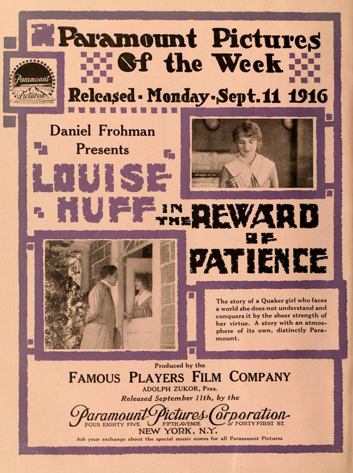 Advertisement in Moving Picture World for the film The Reward of Patience (1916).